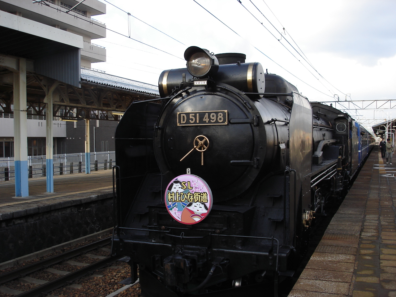 Murakami Hina Kaido train at Shibata Station, 18 March 2007